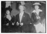 Philadelphia Emergency Aid Benefit at Philadelphia Opera House 17December1916 Mr and Mrs Paderewski and wife of Pennsylvania S.Ct. justice